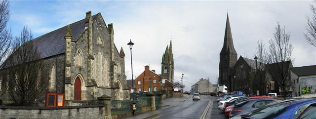 Three Omagh Churches. Pictured from left to right along Church Street are the Methodist Church, The Sacred Heart RC Church and St Columbas Church of Ireland. Trinity Presbyterian Church is out of sight behind the camera.